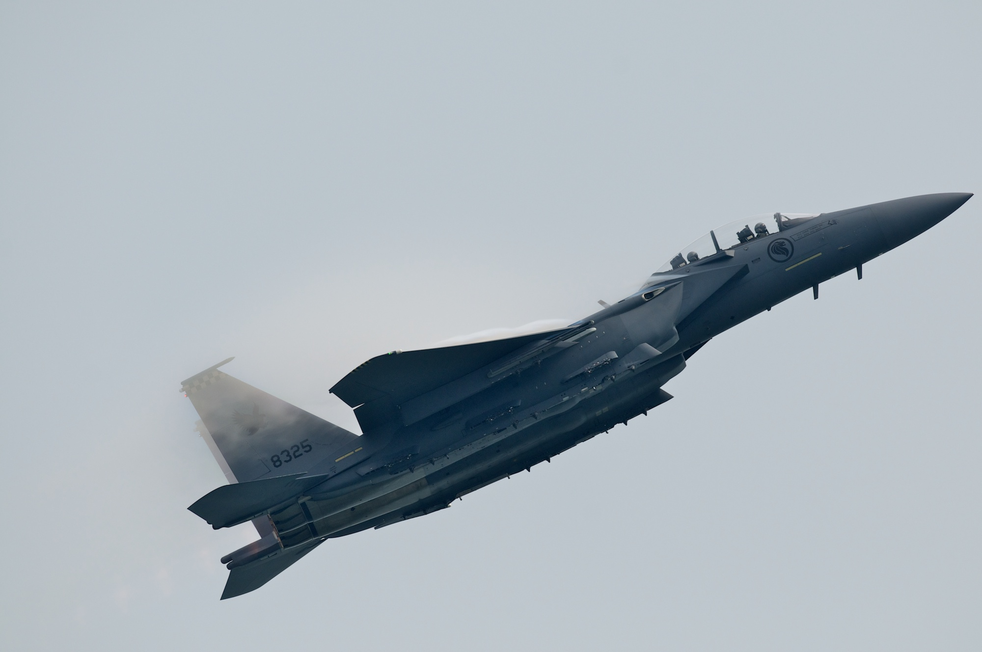 Singapore Airshow 2012